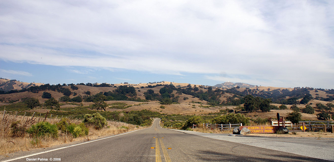 View of Mount Hamilton from the West, from California SR-130 at the entrance to Joseph D. Grant County Park. Vista del Monte Hamilton, California desde la carretera estatal 130 en la entrada del parque condal Joseph D. Grant.